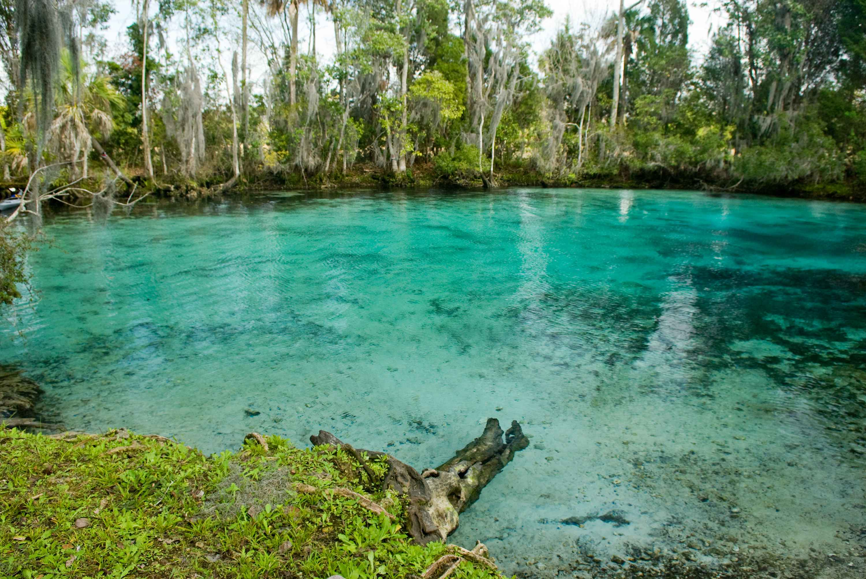 Image title: Three sisters springs near crystal river national wildlife refuge Image from Public domain images website